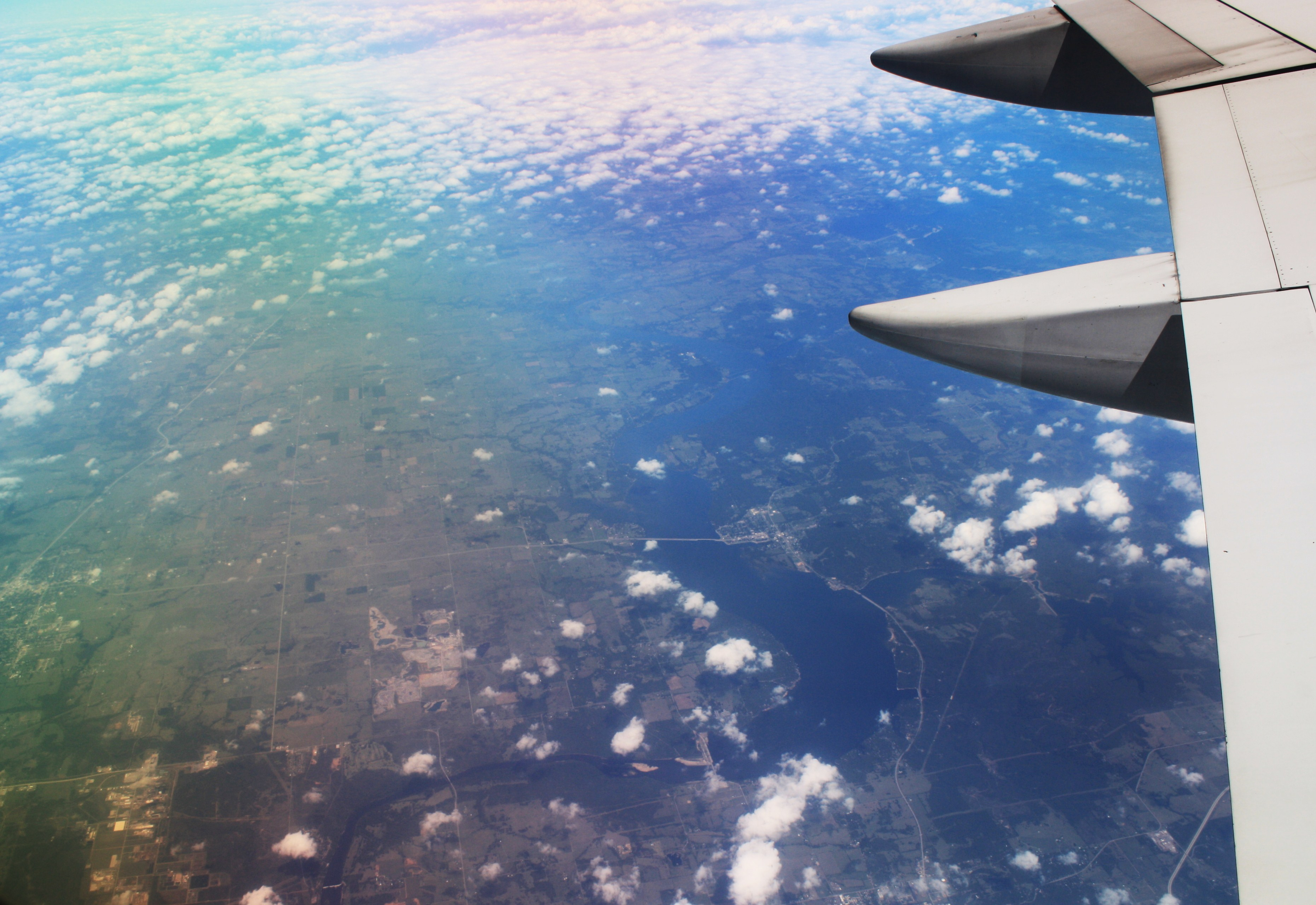 Lake Hudson and Neosho River, Oklahoma